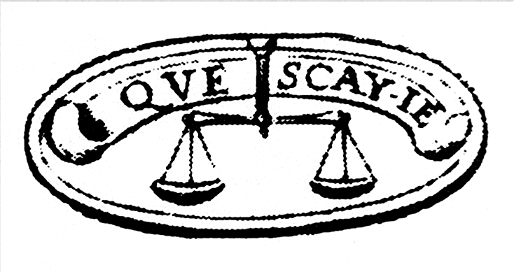 The Motto of Michel de Montaigne: "Que sais-je?" (What do I know?)